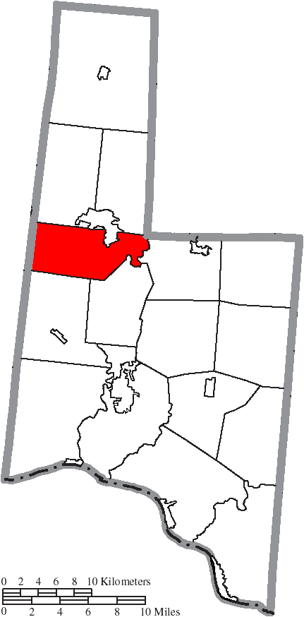 Map of the municipal and township boundaries of Brown County, Ohio, United States, as of the 2000 census, with the location of Pike Township highlighted. Township borders are shown only in unincorporated areas in order to differentiate incorporated and unincorporated areas more clearly.